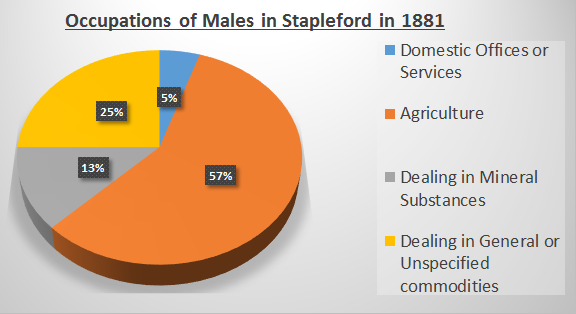 Occupational Structure of Males reported by the census reports from Vision of Britain